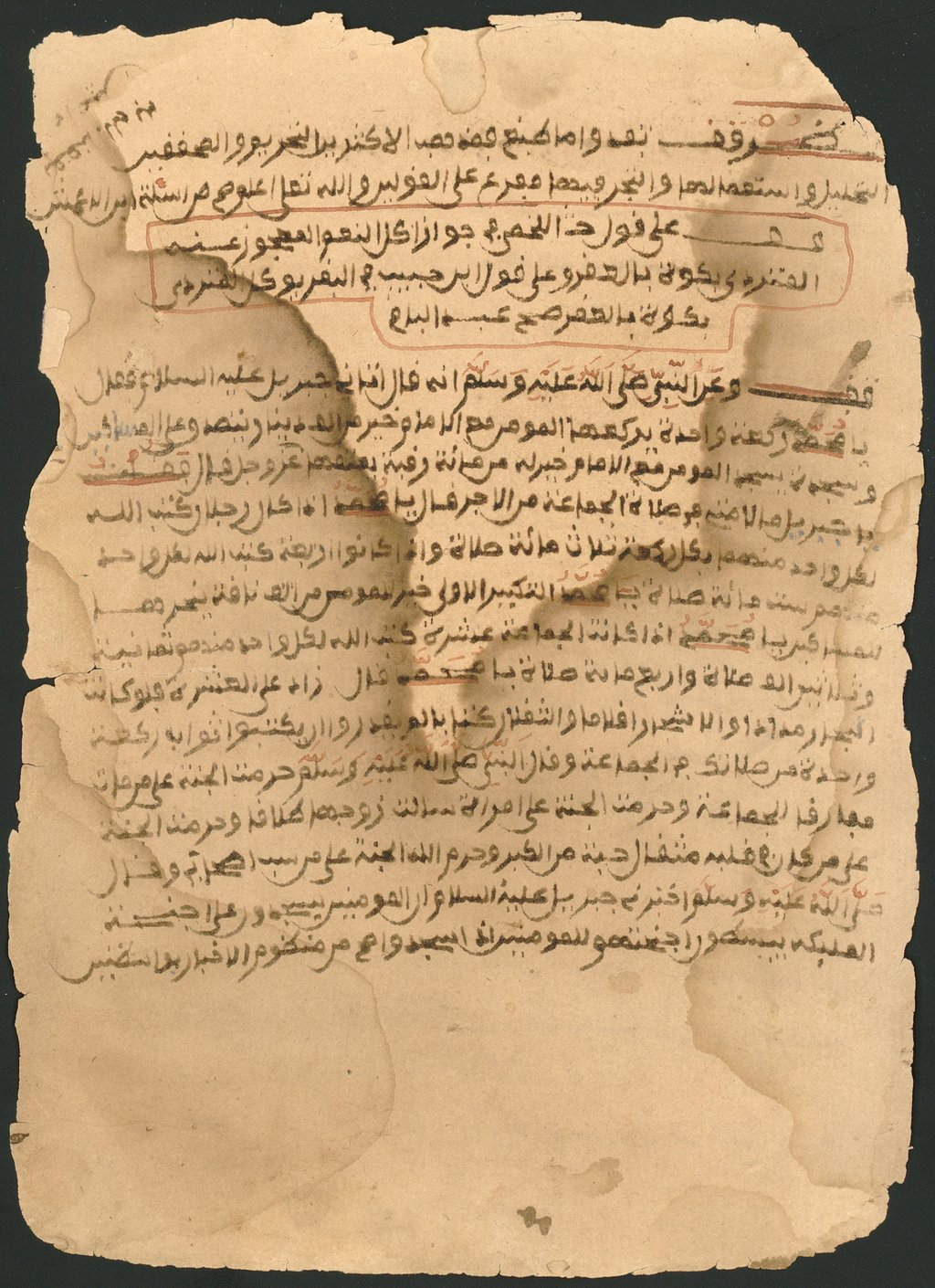 Timbuktu, founded around 1100 as a commercial center for trade across the Sahara Desert, was also an important seat of Islamic learning from the 14th century onward. The libraries of Timbuktu contain many important manuscripts, in different styles of Arabic scripts, which were written and copied by Timbuktu’s scribes and scholars. These works constitute the city’s most famous and long-lasting contribution to Islamic and world civilization. This treatise is about the Songhai Empire, which flourished in West Africa during the 14th and 15th centuries. It consists of the answers to seven questions asked of the author by the emperor of Songhai. The author tells the emperor that he is obliged to apply Islamic law strictly in administering the political and economic affairs of the empire. In order to do so properly, he is told that he needs to seek the advice of pious scholars. Arabic calligraphy; Arabic manuscripts; Islamic law; Islamic manuscripts; Songhai Empire; Timbuktu manuscripts